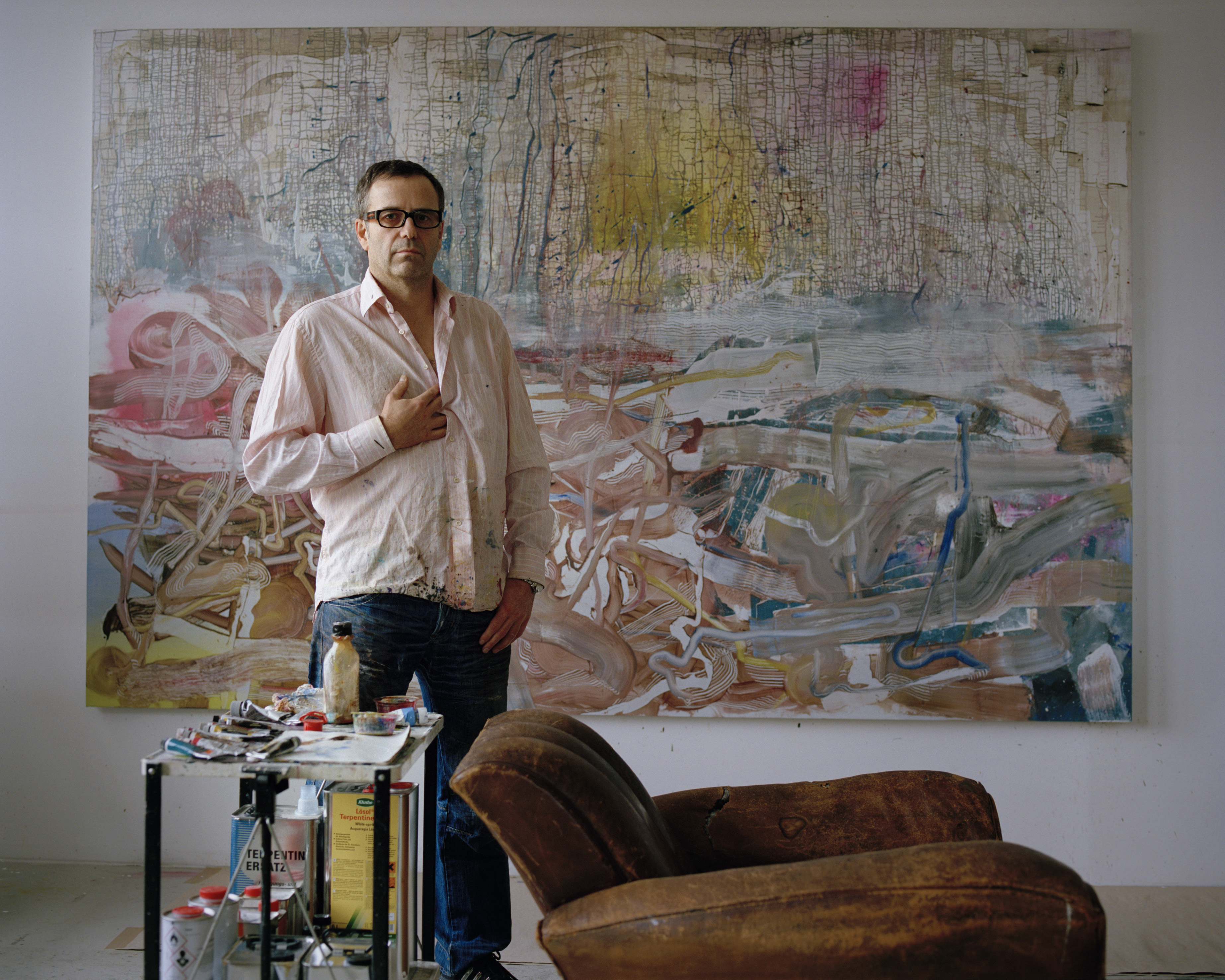 Florin Kompatscher photographiert in seinem Studio in Berlin Wedding 2013© Oliver Mark / Die Veröffentlichung wurde von Oliver Mark freigegeben